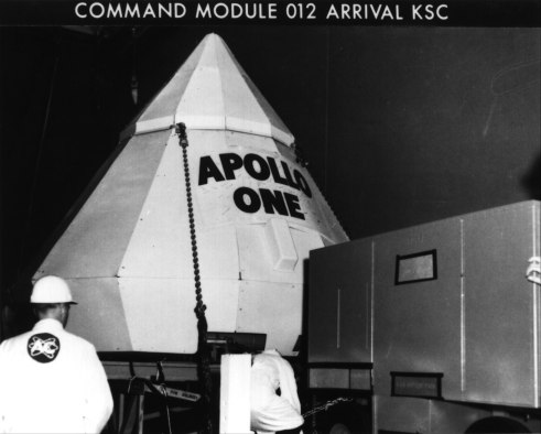 Command module CM-012, christened Apollo One by its North American Aviation manufacturers, arrives at the Kennedy Space Center, 26 August, 1966.